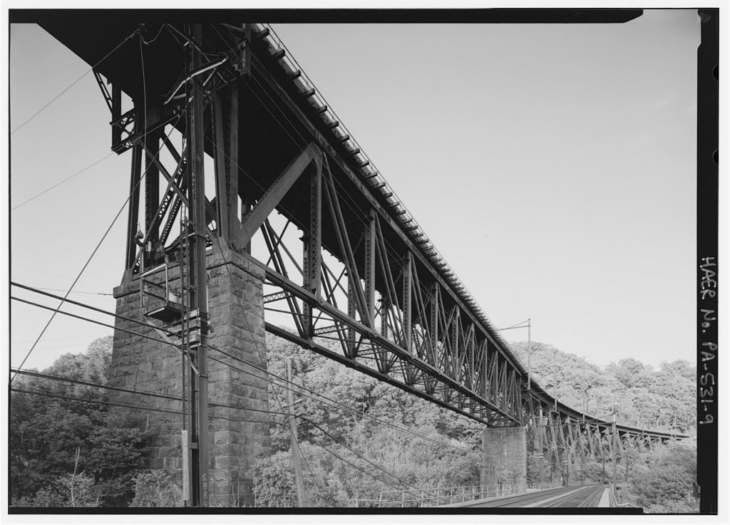 Pennsylvania Railroad bridge spanning Conestoga River at Safe Harbor Dam,PA. The Atglen and Susquehanna Branch runs on the upper bridge, the Columbia and Port Deposit Branch on the lower span.